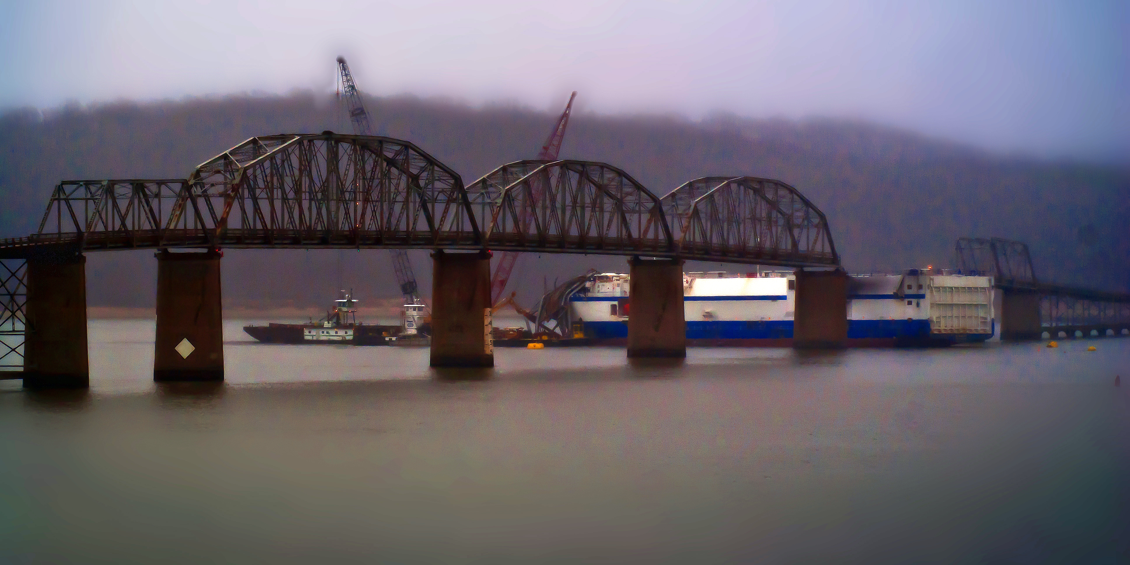 M/V Delta Mariner at the site of the Eggner Ferry Bridge incident.